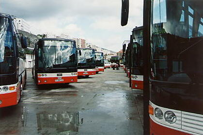 Public buses of La Palma